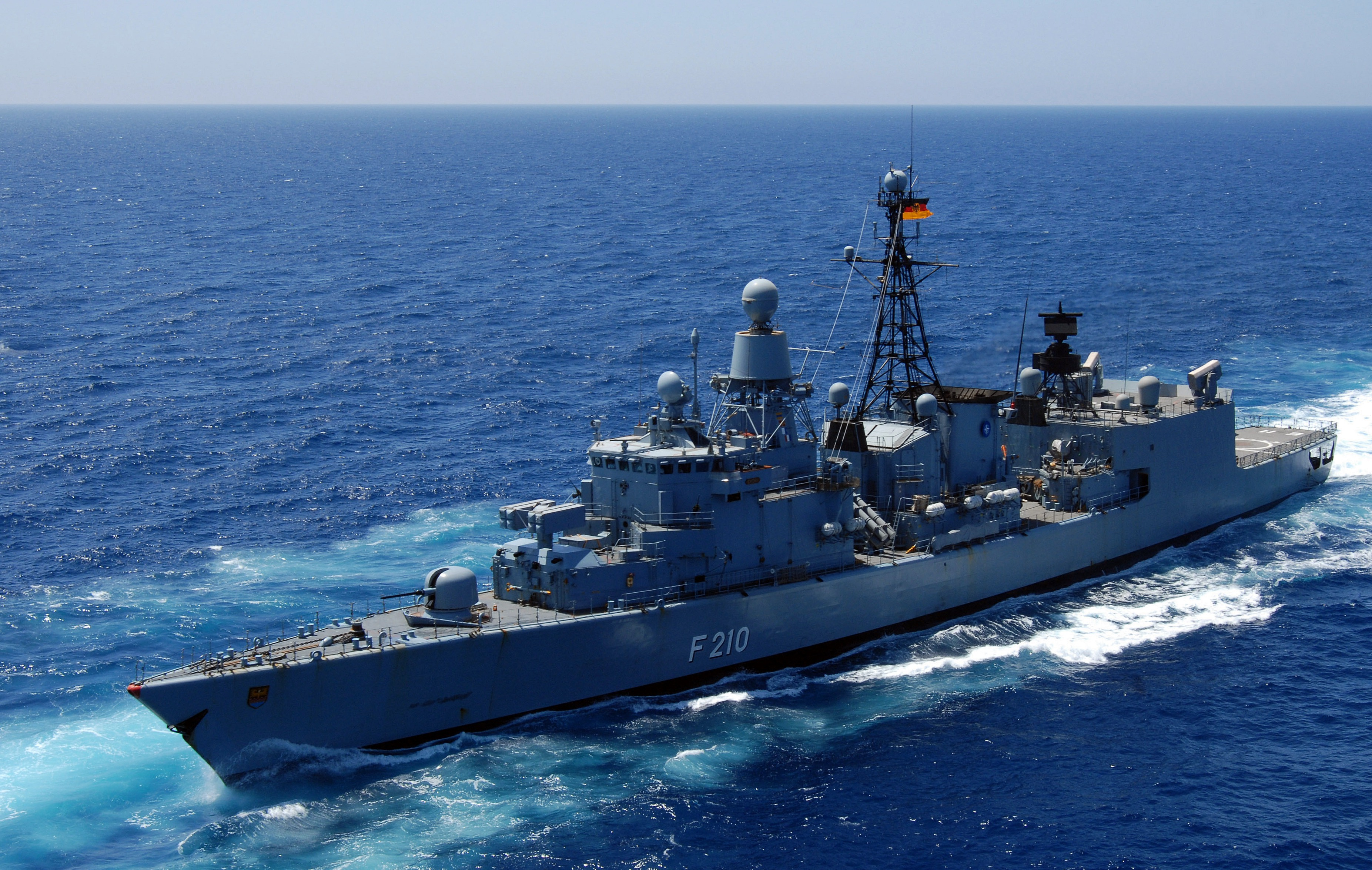 090713-N-0901C-087 ATLANTIC OCEAN (July 13, 2009) The German Navy frigate Emden (F 210) participates in a pass and review during the North Atlantic Council at Sea Day.